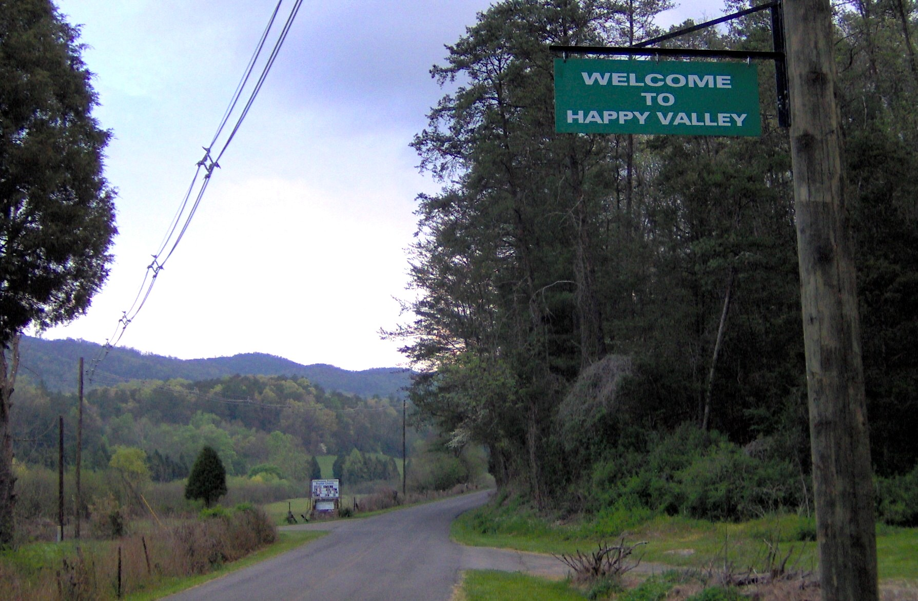 The "entrance" to Happy Valley, Tennessee, in the southeastern United States. Happy Valley is located in the Great Smoky Mountains of Blount County.